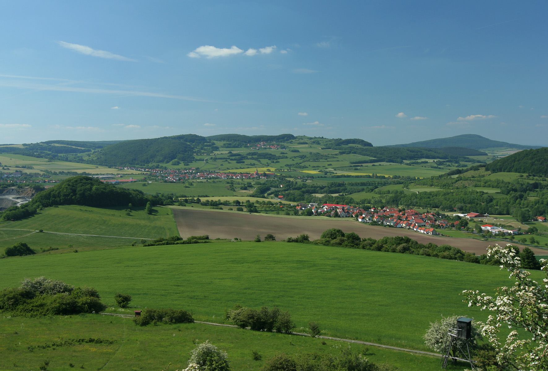 Empfertshausen, Zella/Rhön, Föhlritz, Gläserberg, Diedorf/Rhön, Baier (Berg) (v.l.n.r. / from left to right)